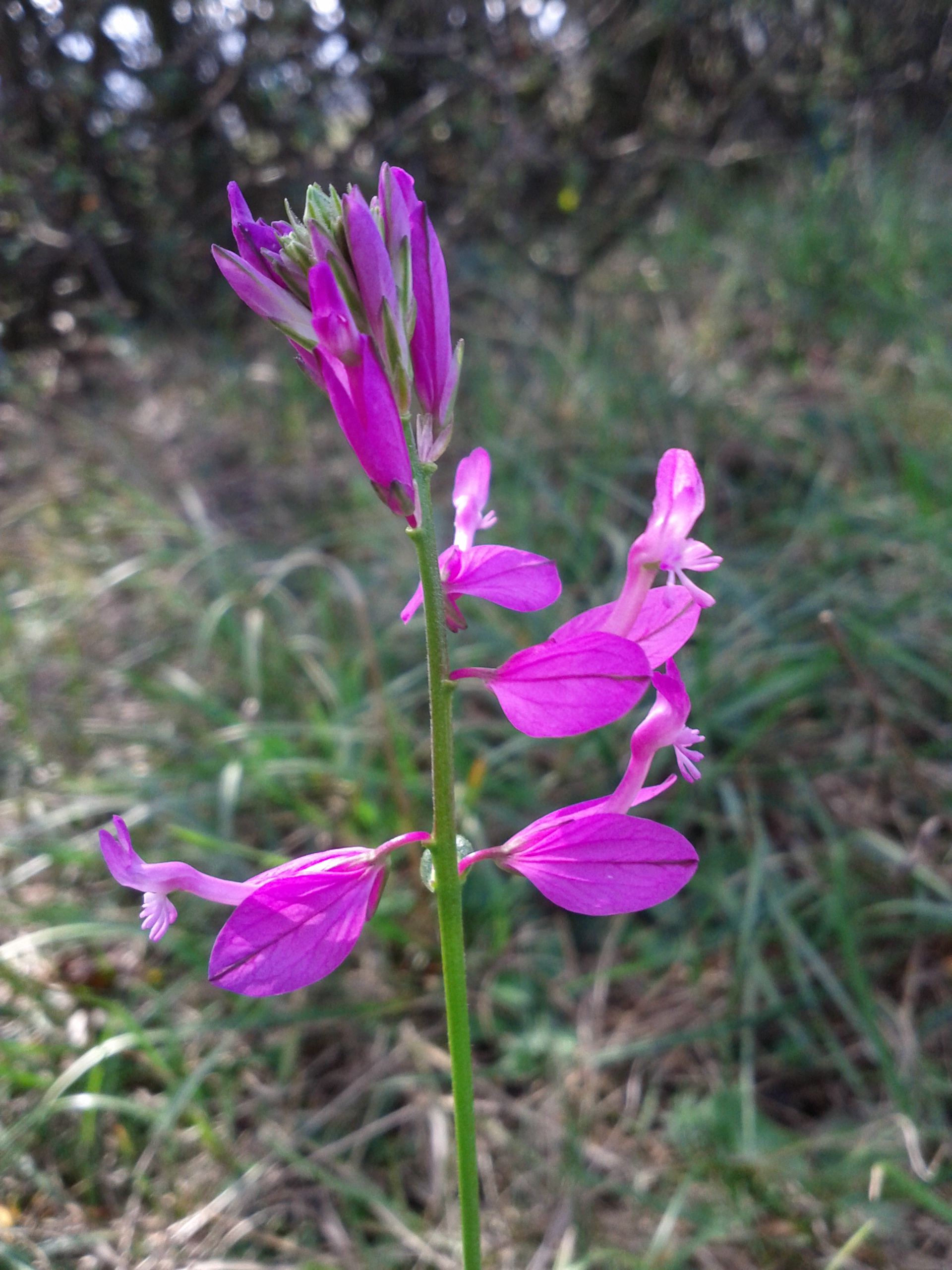 Inflorescence Taxonym: Polygala major ss Fischer et al. EfÖLS 2008 ISBN 978-3-85474-187-9 Location: Leiser Berge, district Korneuburg, Lower Austria - ca. 450 m a.s.l. Habitat: dry grassland on Limestone